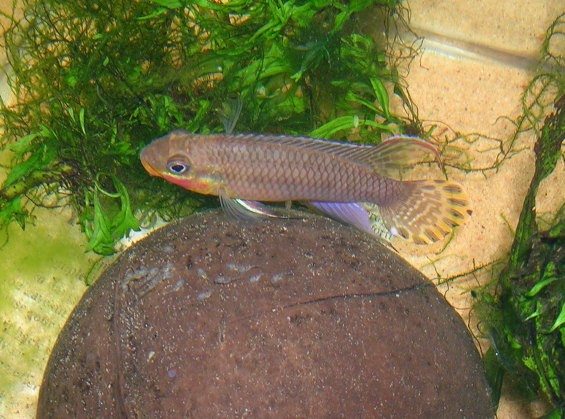 Pelvicachromis taeniatus "Nigerian Red" male guarding 4-day old fry. Specimens in a home aquarium.